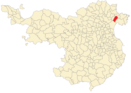 Pau-Sabardera